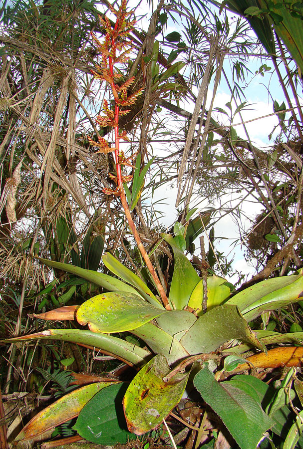 A tank bromeliad at elevation on the Peru/Ecuador border. Reported in highlands from Ecuador to Bolivia. In context at